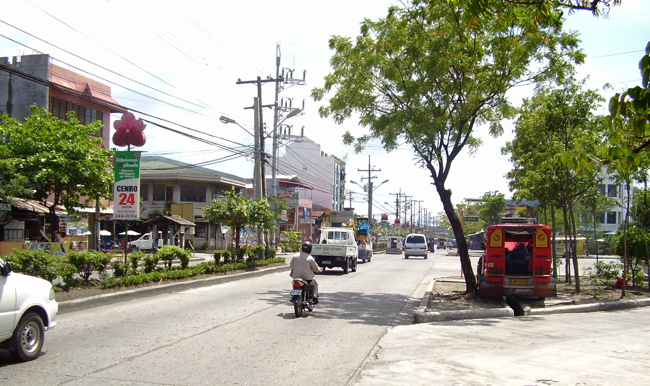 view on Quezon Blvd, Davao City